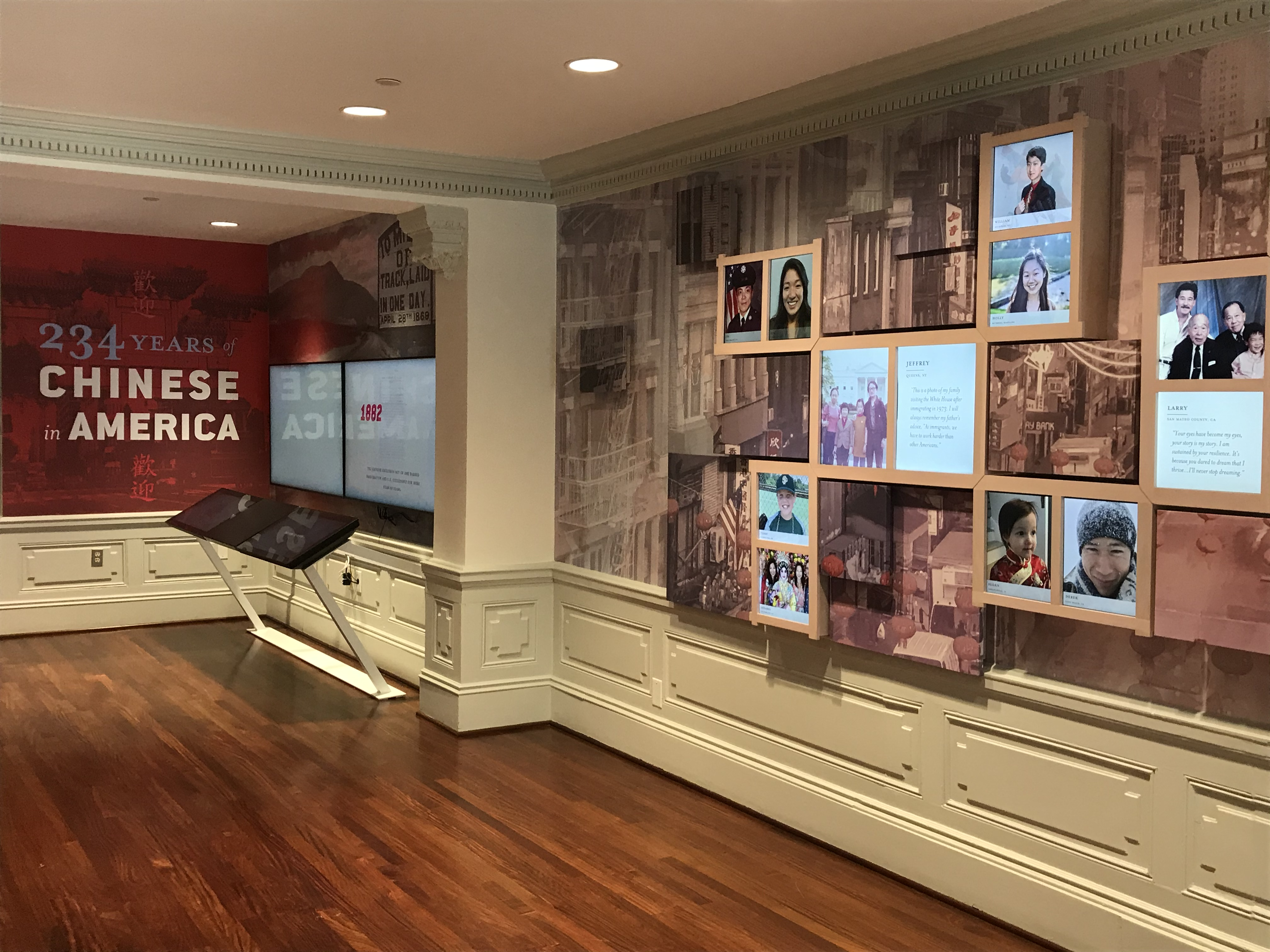 Interior photo of the Chinese American Museum DC